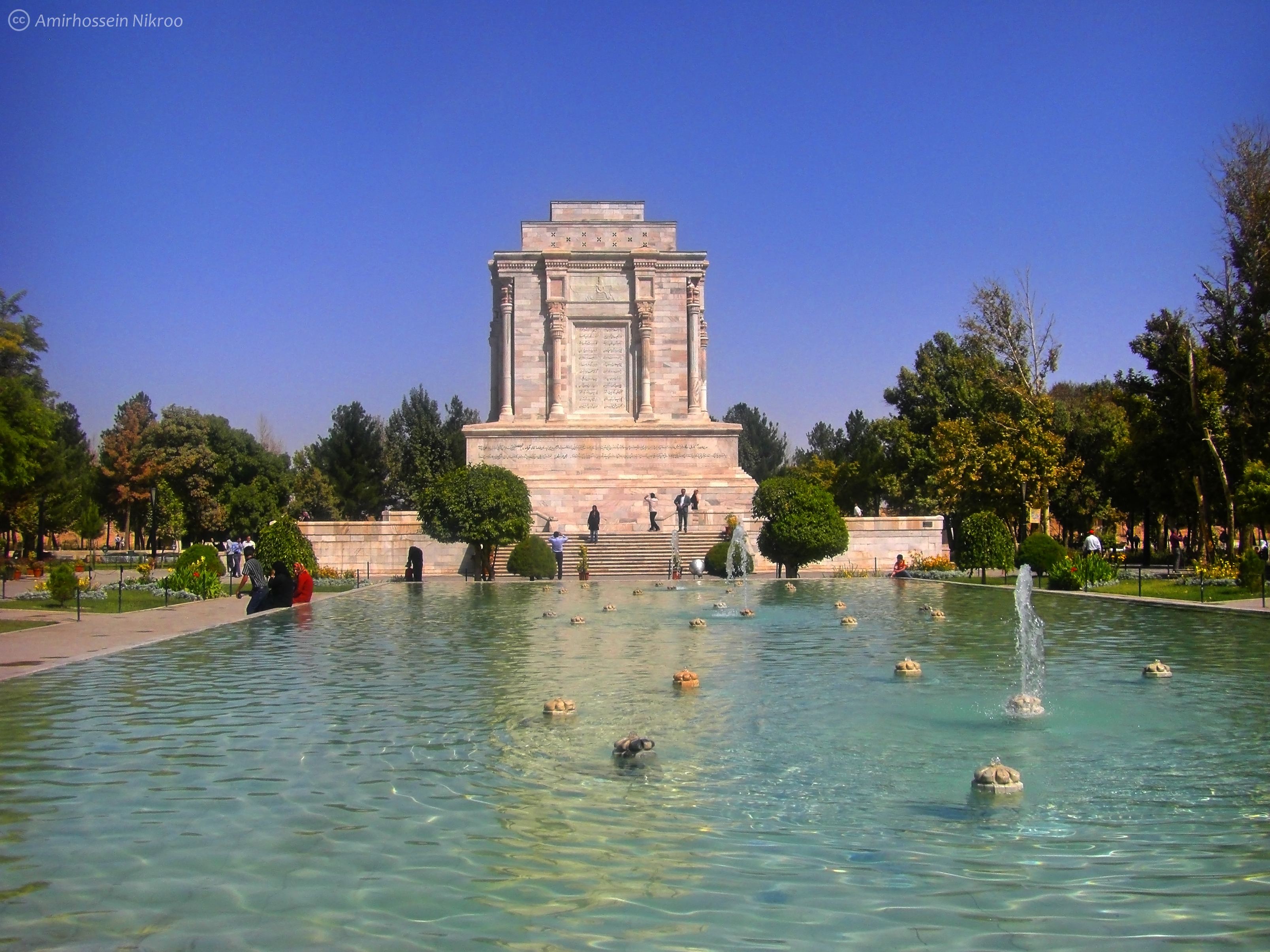 Ferdowsi Tomb in Mashhad